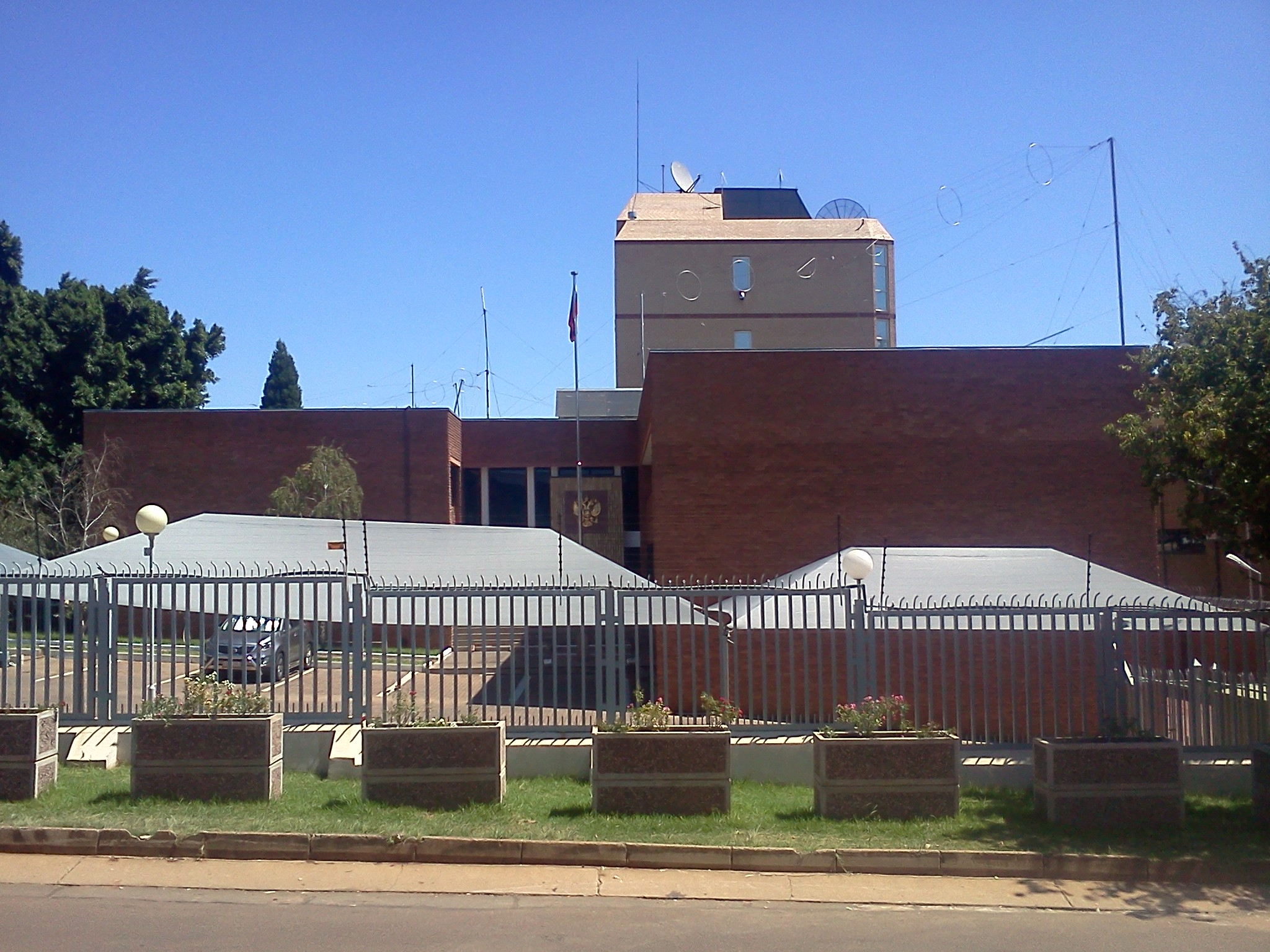 Russian Embassy in Pretoria, South Africa